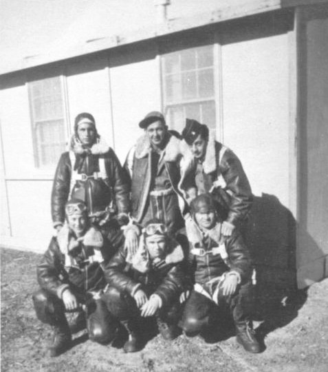 Air crewmen at Tonopah Army Airfield, Nevada, in 1943. Left to right: Standing: Paul Parkinson, Tommy Glass, Ed Hovey Kneeling: Russ Grower, Harold DeForest, Earl Fortune Other information